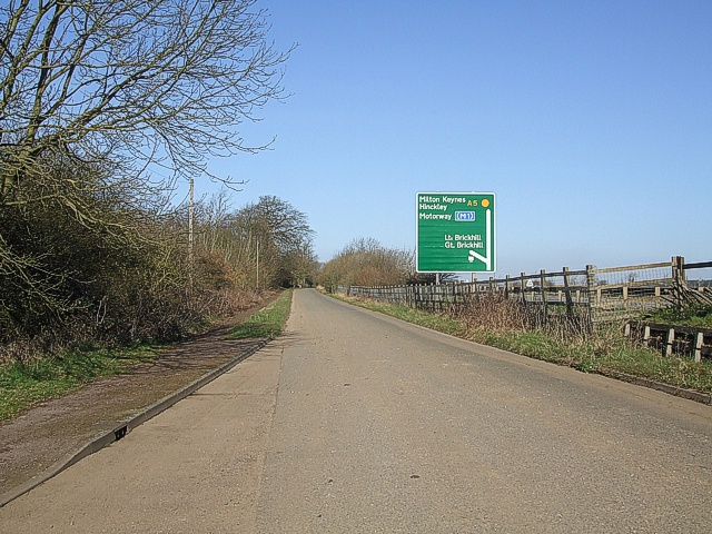 The old A5 (Watling Street) This is the old A5 that used to carry on through Little Brickhill village. The (comparatively) new A5 now sweeps round the village. The green sign is on this new road, showing how close it is to the old route at this point. I'm classifying this as "Road (disused)" as although still open to traffic, it is no longer the thoroughfare it used to be.